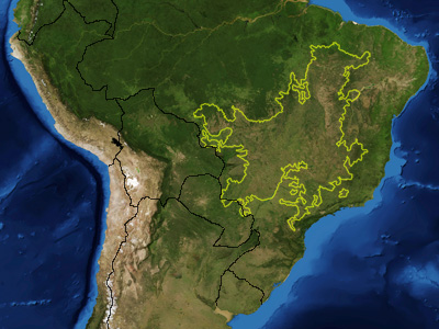 This is a map showing the location of the Cerrado ecoregion as delineated by the World Wide Fund for Nature. I, Pfly, made it using NASA Blue Marble imagery and ecoregion GIS data which I simplified and digitized in Photoshop.